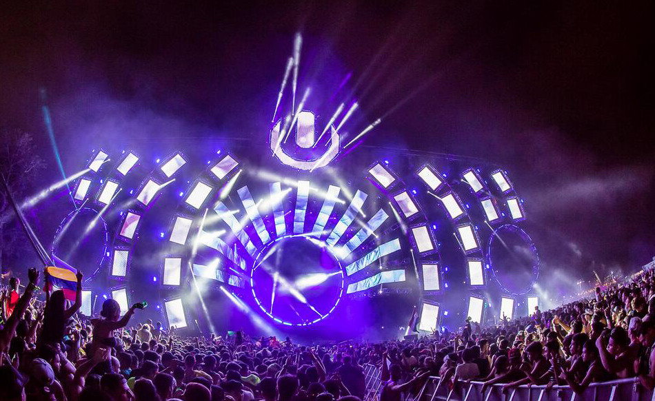 FELIXFRO Ultra-Music-Festival-2014-Live-Sets-Day-3-Hardwell-Jack-U-Gaia-+-Many-More